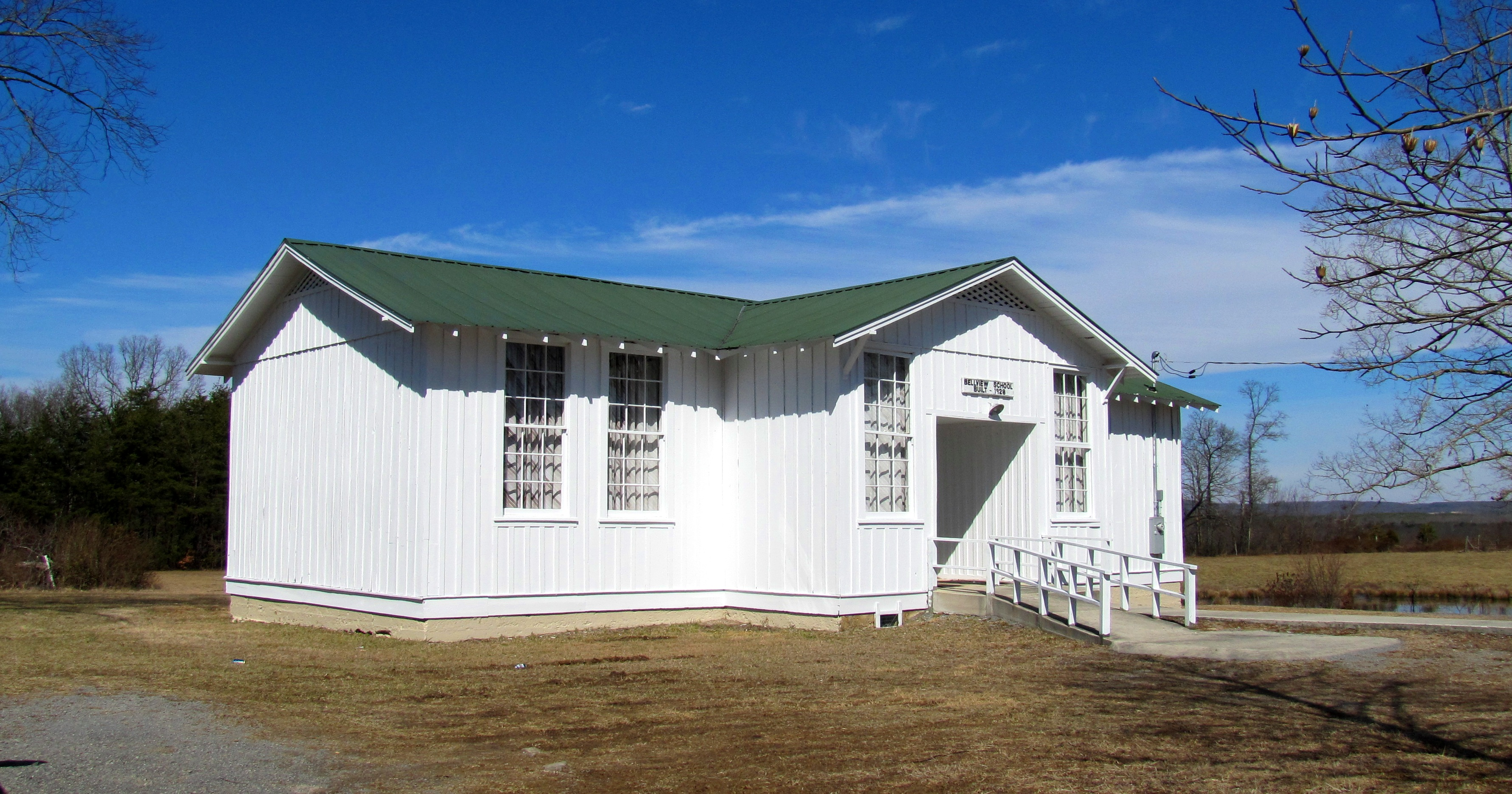 The NRHP-listed Bellview School, built in 1928, in Bellview (Bledsoe County), Tennessee, USA. The school is now used as a community center.